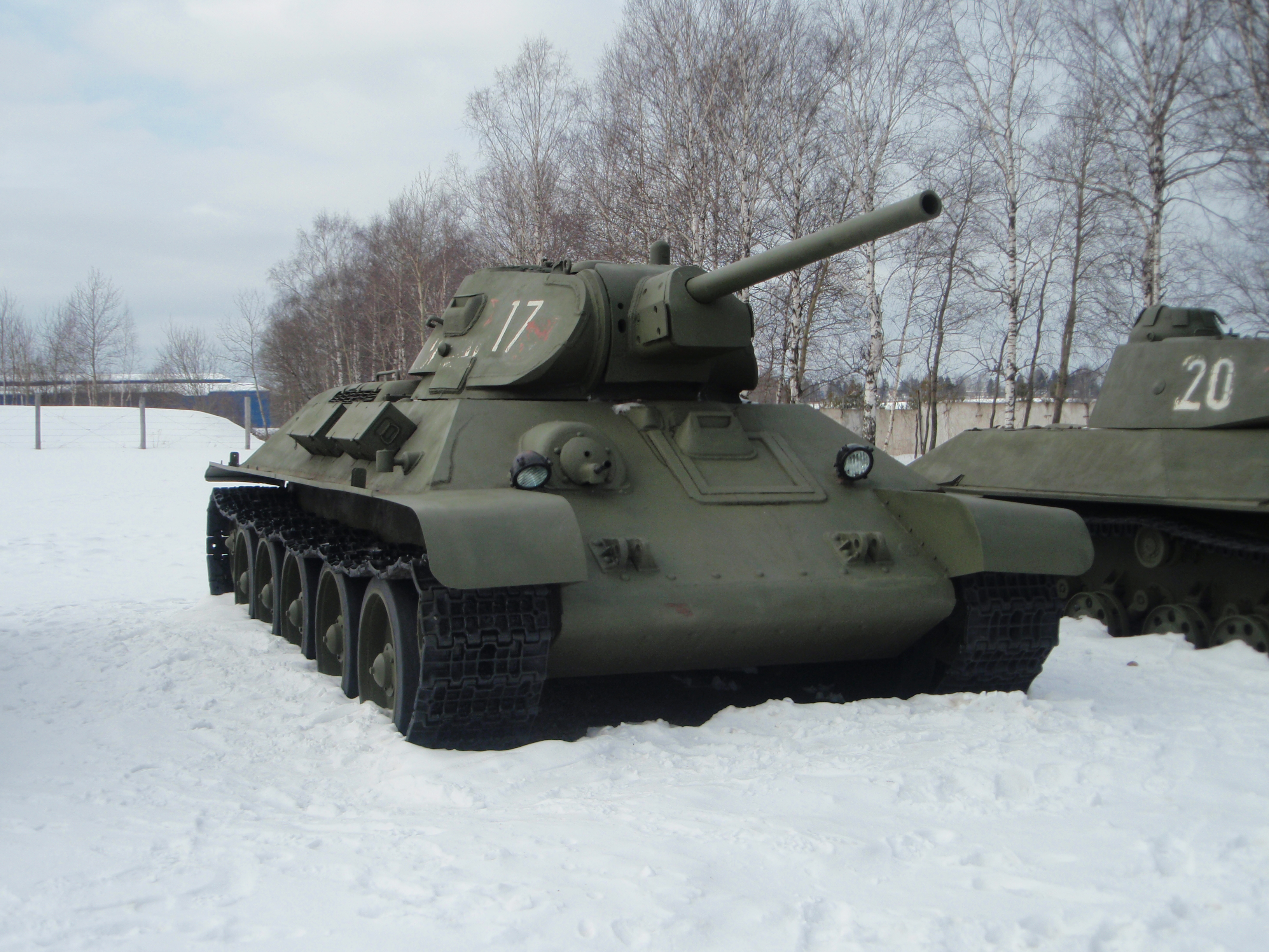 T-34 model 1941 in the Tank Museum, Kubinka.